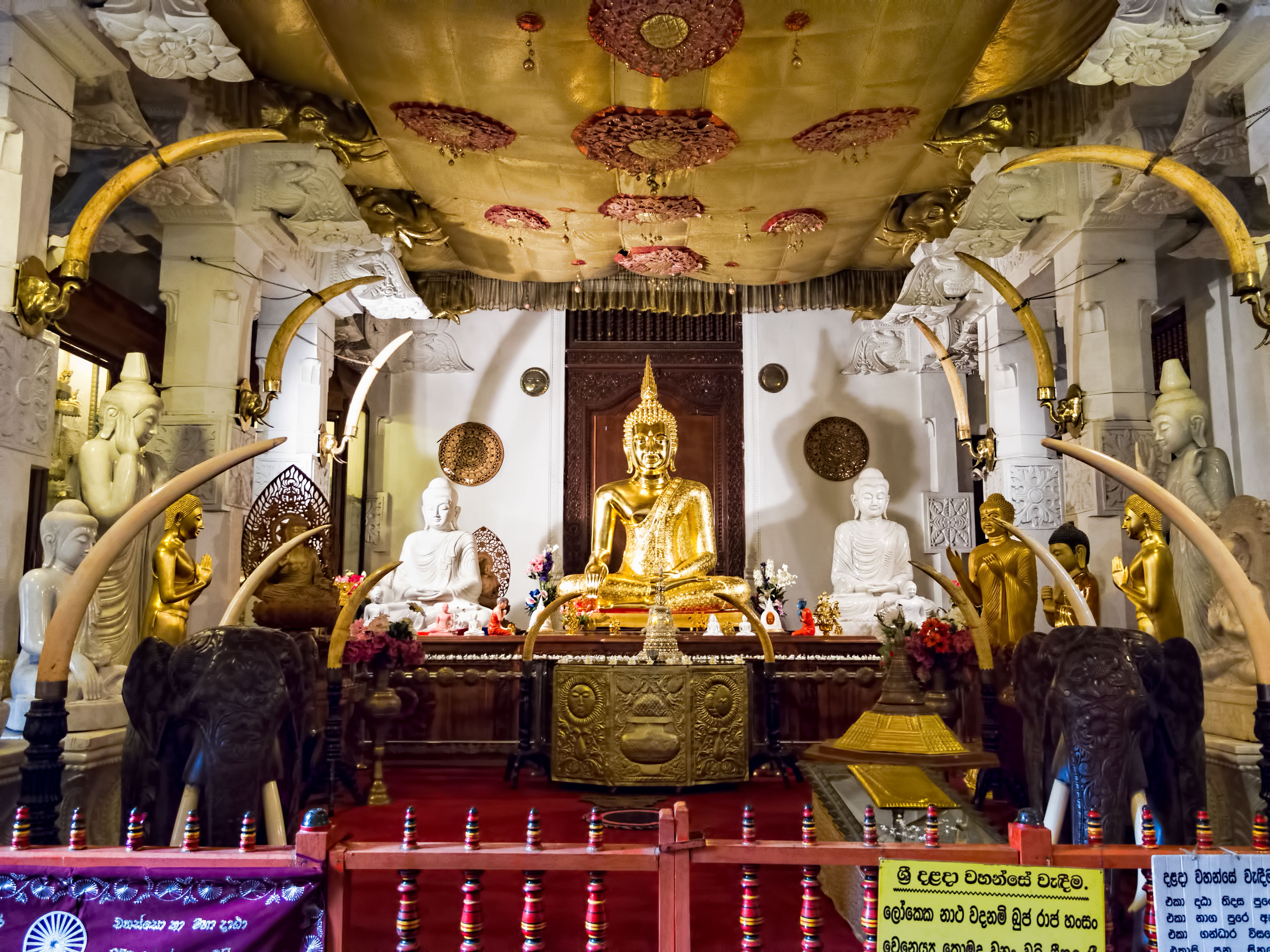 A gilded Buddha amongst elephant tusks and carved wooden elephants in the New Shrine Room behind the main Shrine Room at the Temple of the Sacred Tooth Relic. Buddha’s tooth was supposedly snatched from the flames of his funeral pyre in 483 BCE. During the 4th century CE the tooth was smuggled out of India into Sri Lanka hidden in the hair of a princess. Originally taken to the ancient capital Anuradhapura, the tooth moved around before finally ending up in Kandy. An invading army carried it back to India in 1283, but King Parakramabahu III who reigned from 1302 to 1310 retrieved it. The Portuguese apparently stole the tooth in the 16th century, but the Sinhalese say it was just a replica. The Temple of the Sacred Tooth Relic was primarily constructed from 1687 to 1707 and from 1747 to 1782. The golden canopy over the main shrine was built in 1987 with significant contributions from the Japanese. The Sacred City of Kandy became a UNESCO World Heritage Site in 1988. On Google Earth: Temple of the Sacred Tooth Relic 7°17'36.96"N, 80°38'28.70"E